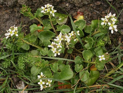 Cochlearia officinalis Source : [1]